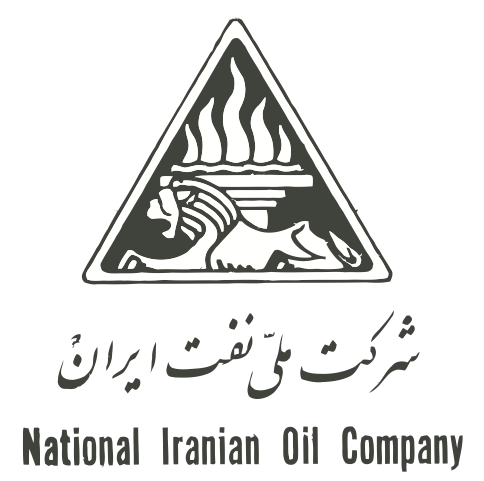 "National Iranian Oil Company" logo before revolution.